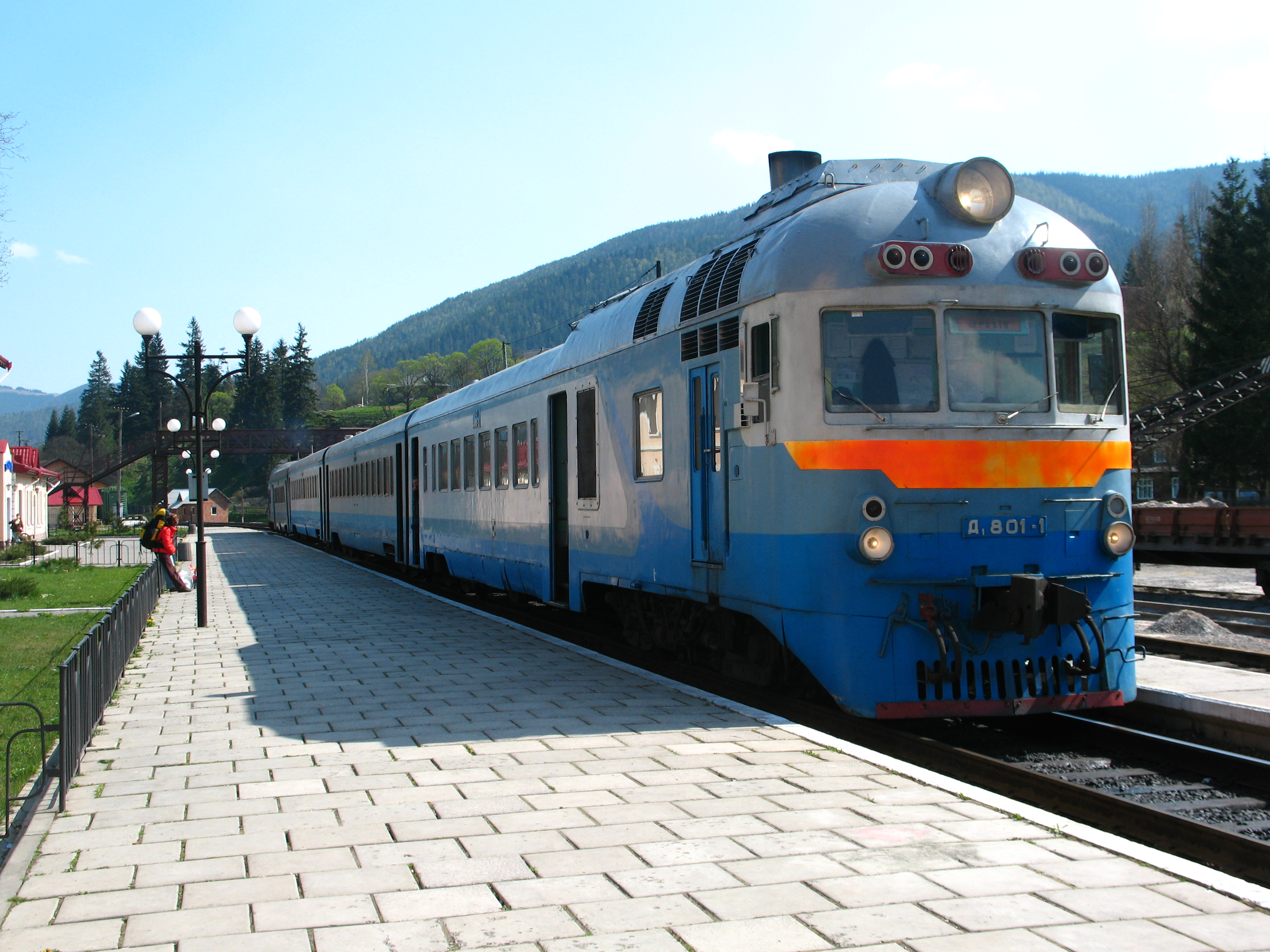 Diesel train D1-801 (one of the last produced) in Vorokhta, Ukraine